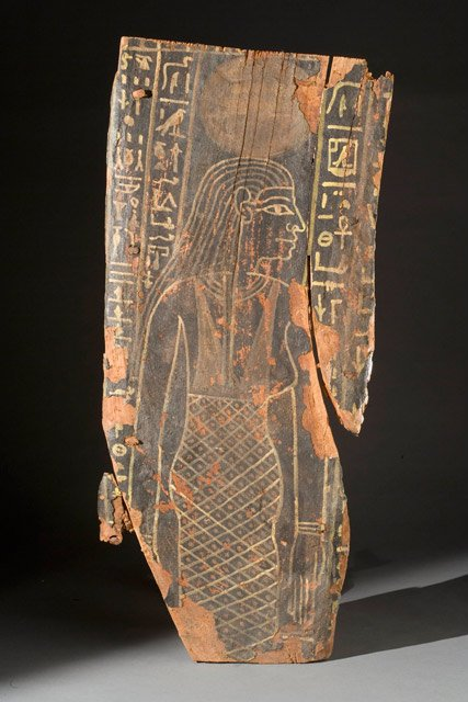 Coffin fragment, 1200-1000 BCE, of the sky goddess Nut, Smithsonian Institution